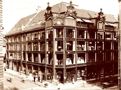 Opening of departement store Jelmoli, Zürich, Switzerland in 1896; Architects: Hermann Stadler & Emil Usteri